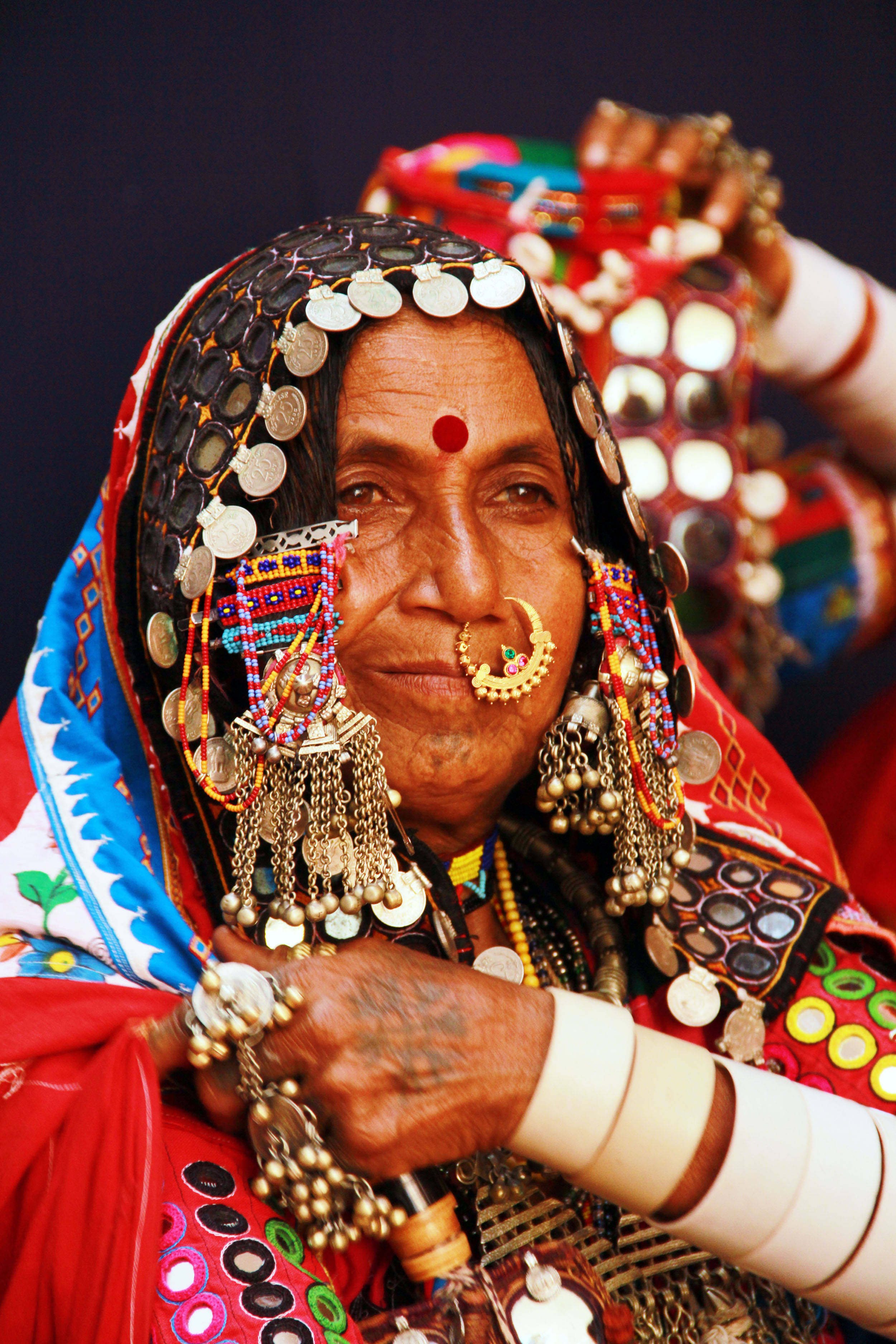 lambani women potrait